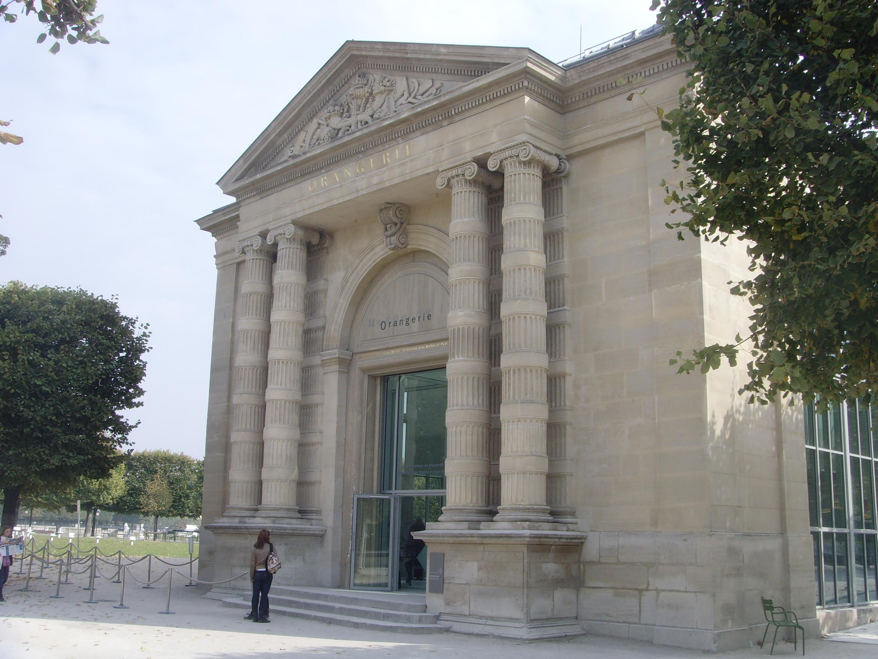 Exterior of Musée de l'Orangerie in Paris